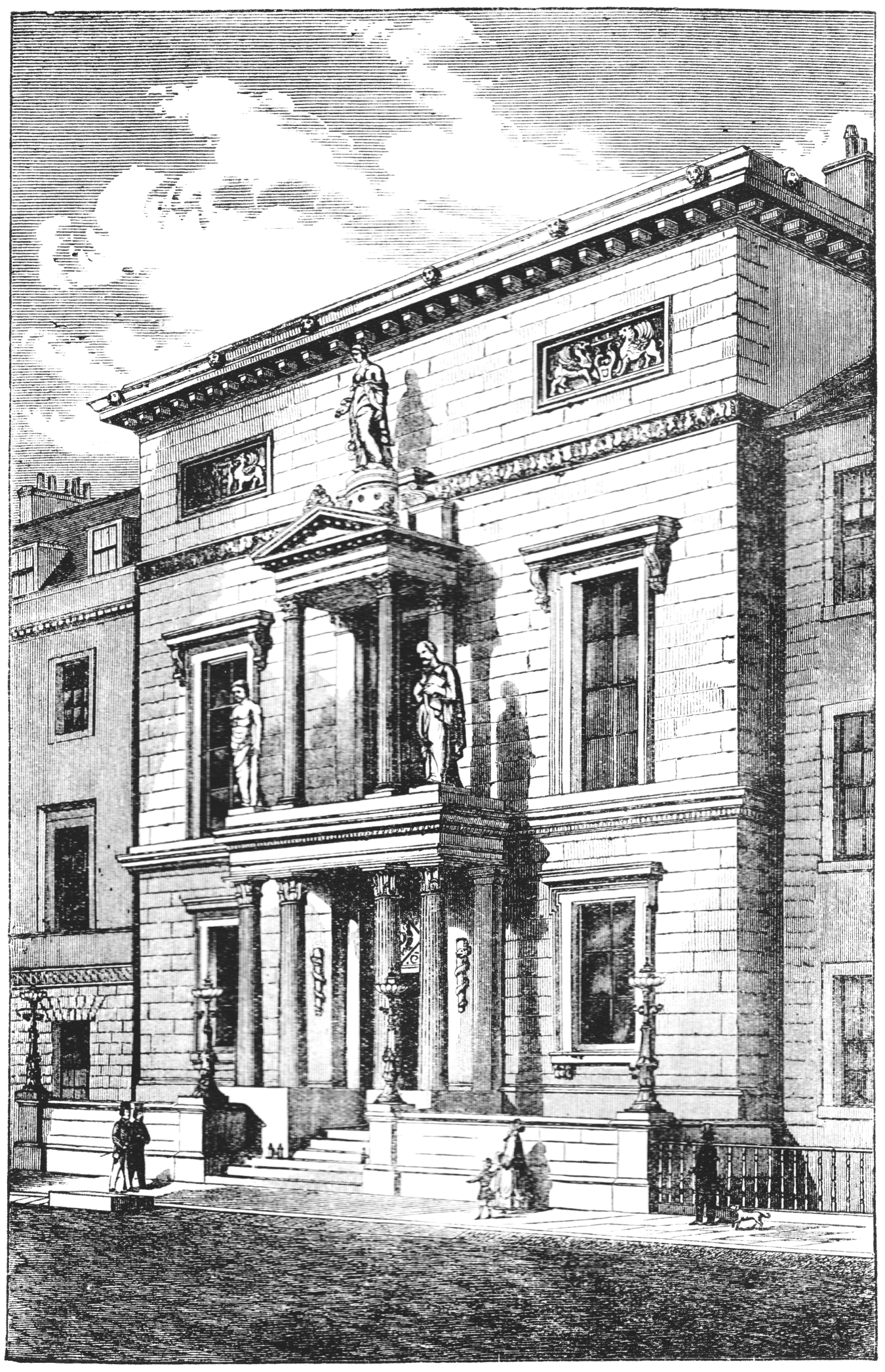 Scan from book: Historical Sketch and Laws of the Royal College of Physicians of Edinburgh from its institution to 1891